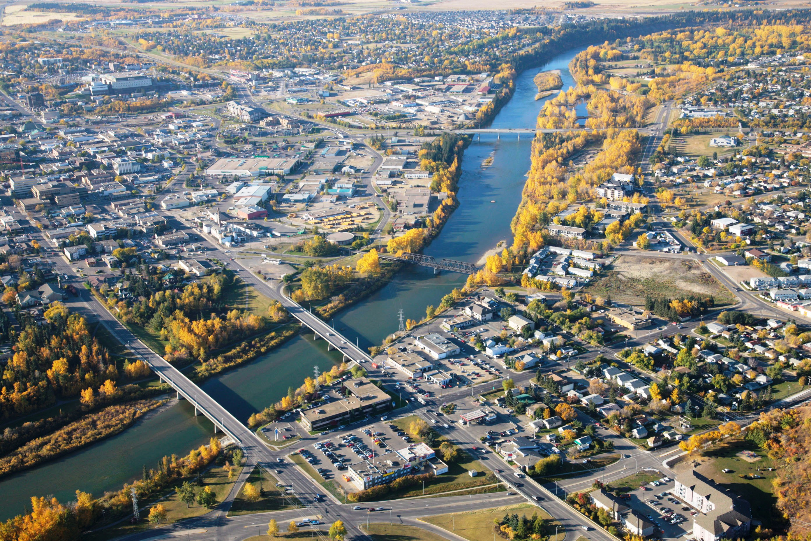 Red Deer from the air; south is to the top left of the photograph.